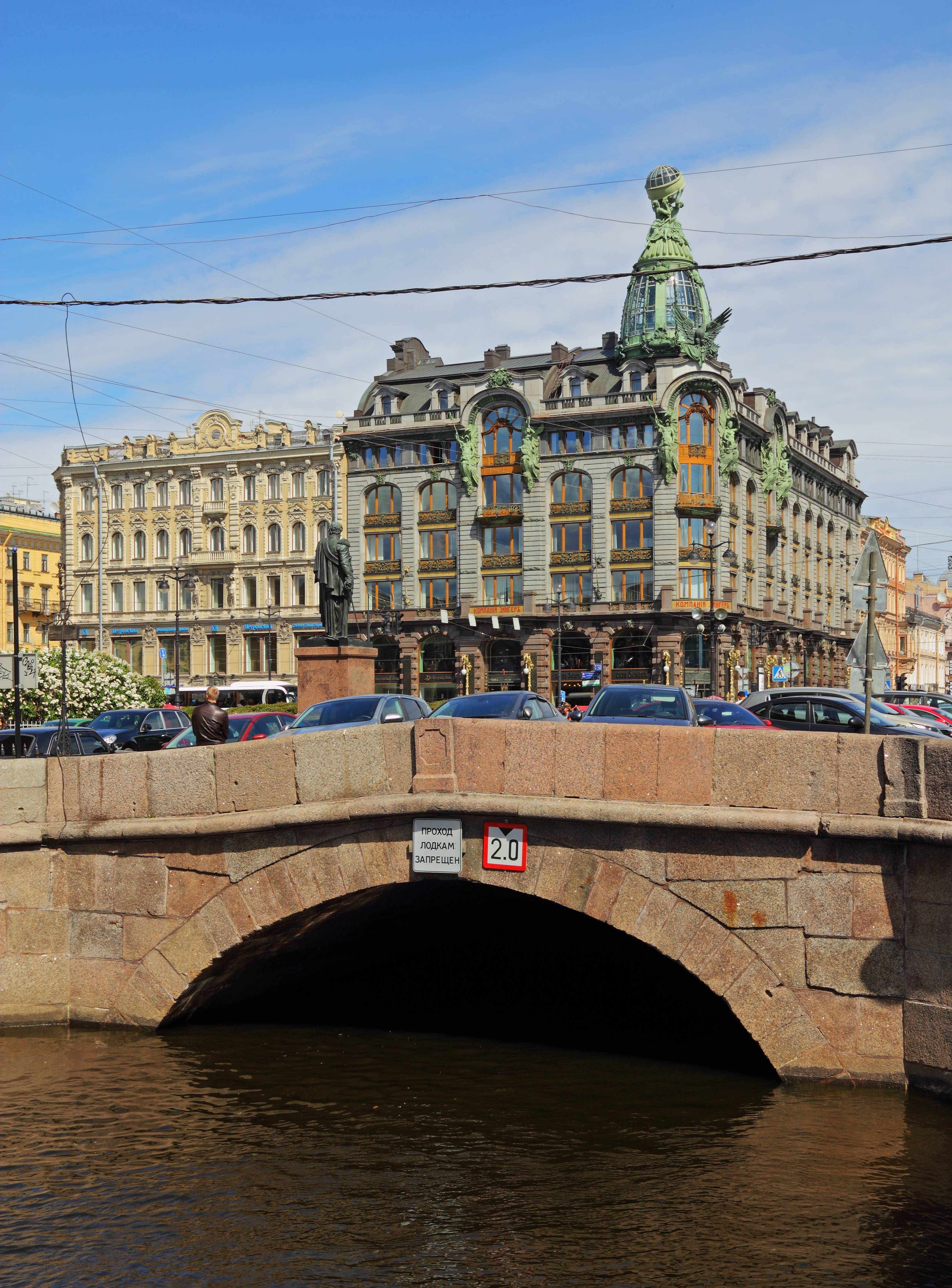 Saint Petersburg, Russia. Nevsky Avenue. Kazan Bridge, and Singer House.